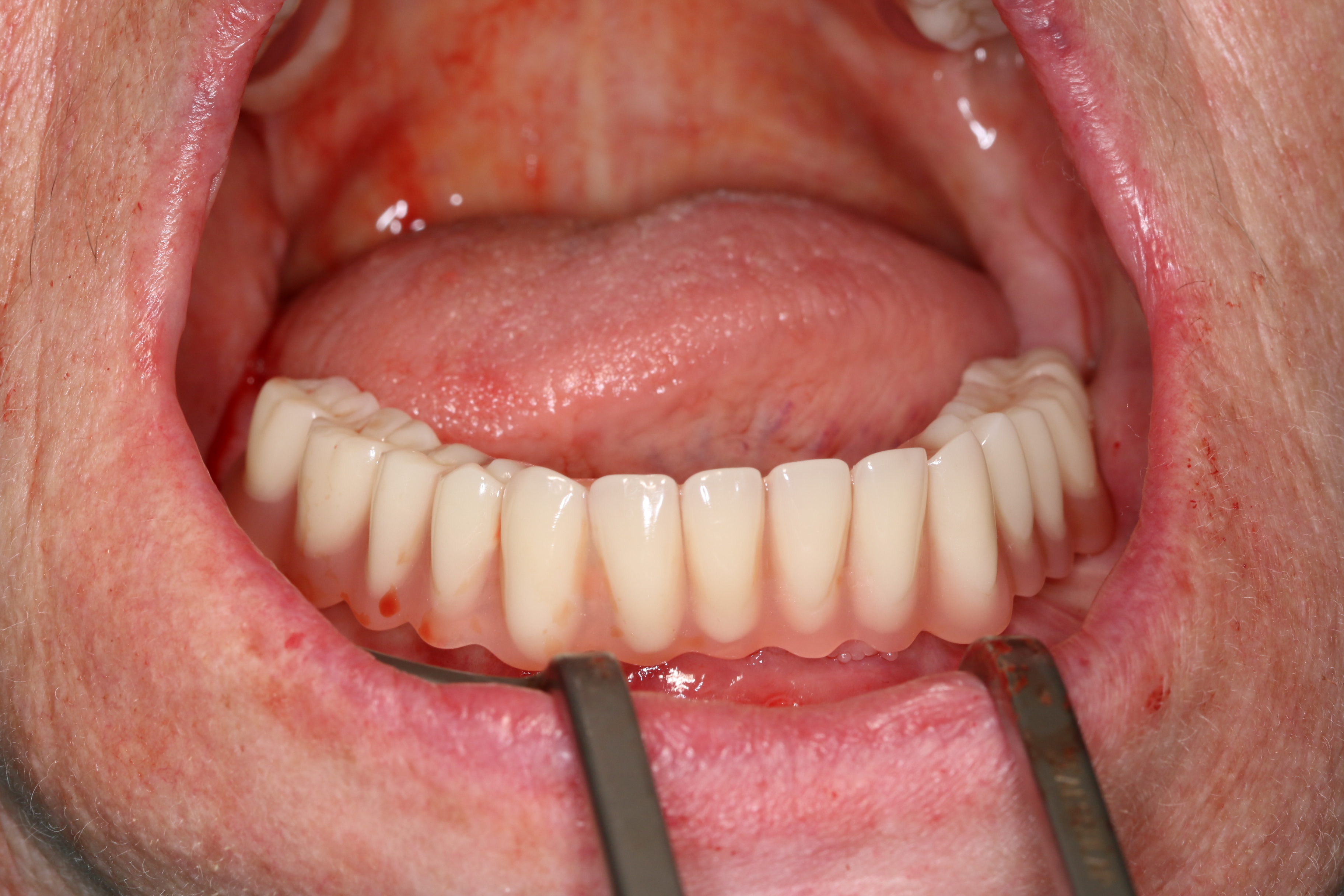 Definitive dental prosthesis, labial view